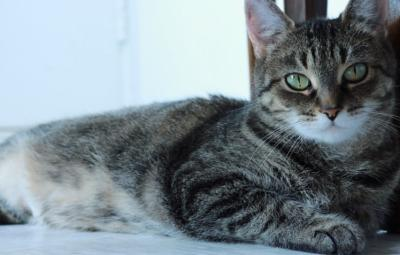 Super cute